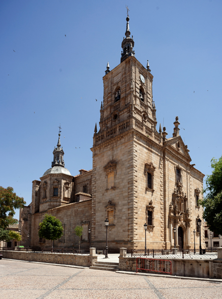 Iglesia; Orgaz, Castilla la Mancha, Toledo, Spain; La iglesia del nord-oeste, la fachada occidental; ref: PM_080103_E_Orgaz; Iglesia de Santo Tomàs Apóstol; Photographer: Paul M.R. Maeyaert; © Paul M.R. Maeyaert; ; Cultural heritage; Europeana; Europe/Spain/Orgaz (Castilla-La Mancha)